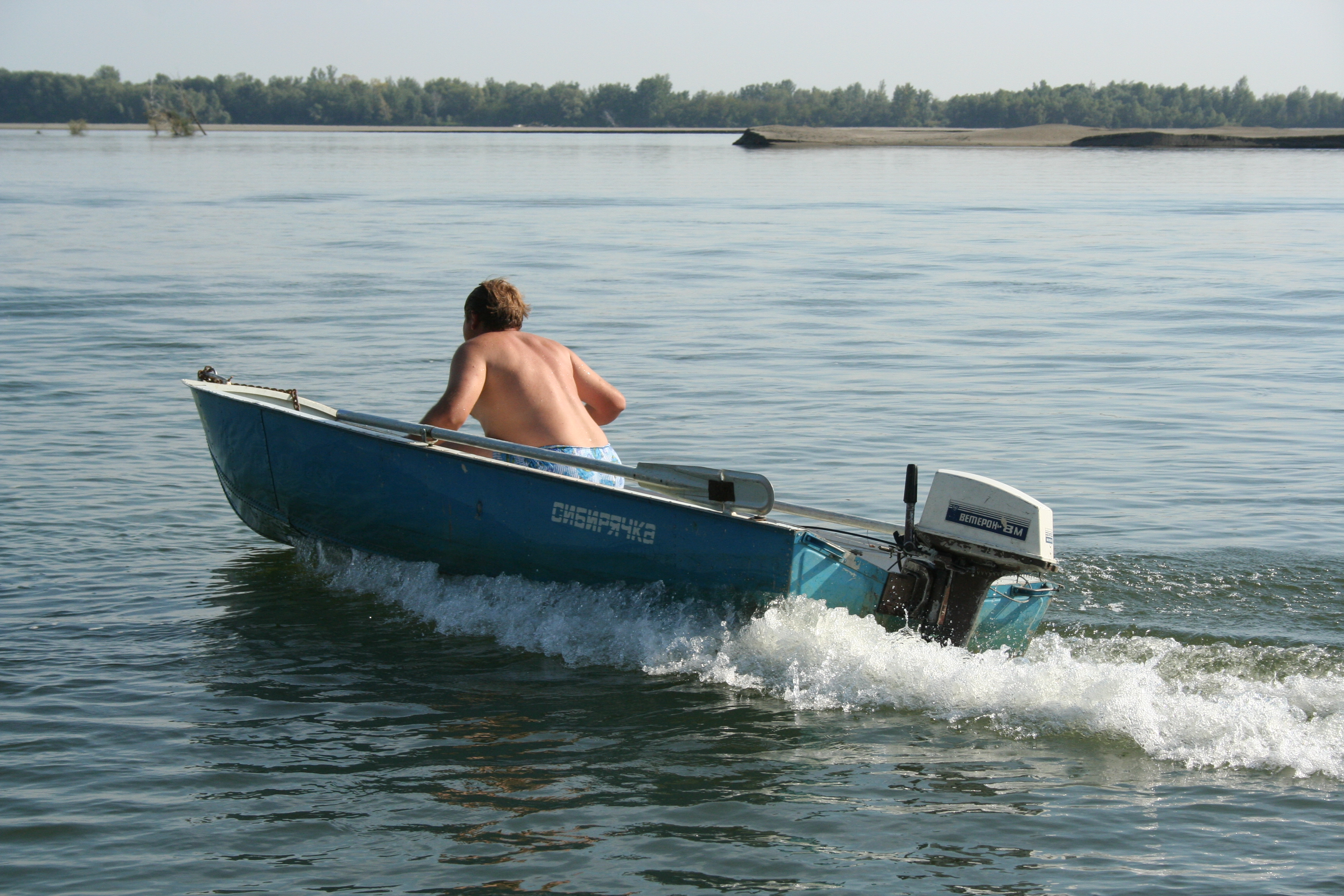 Powerboat type «Sibirachka». Ob River (Russia).